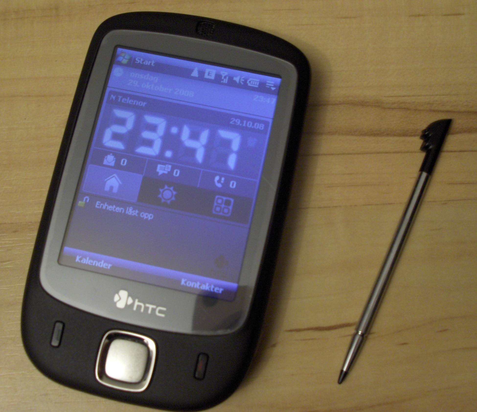 Picture of HTC Touch/Elf (P3450)